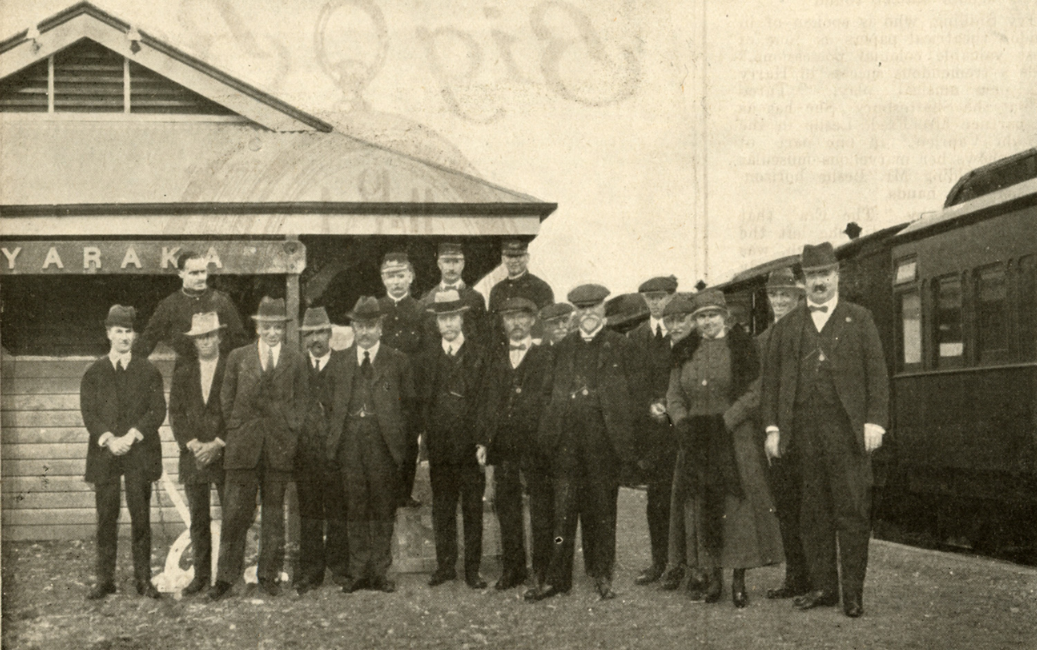 Yaraka Station in 1917. A visit by the New South Wales Premier Mr T. J. Ryan.